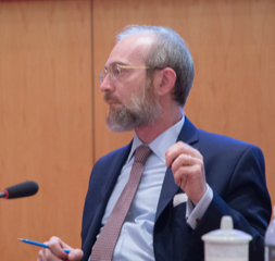 Riccardo Pozzo, during a conference